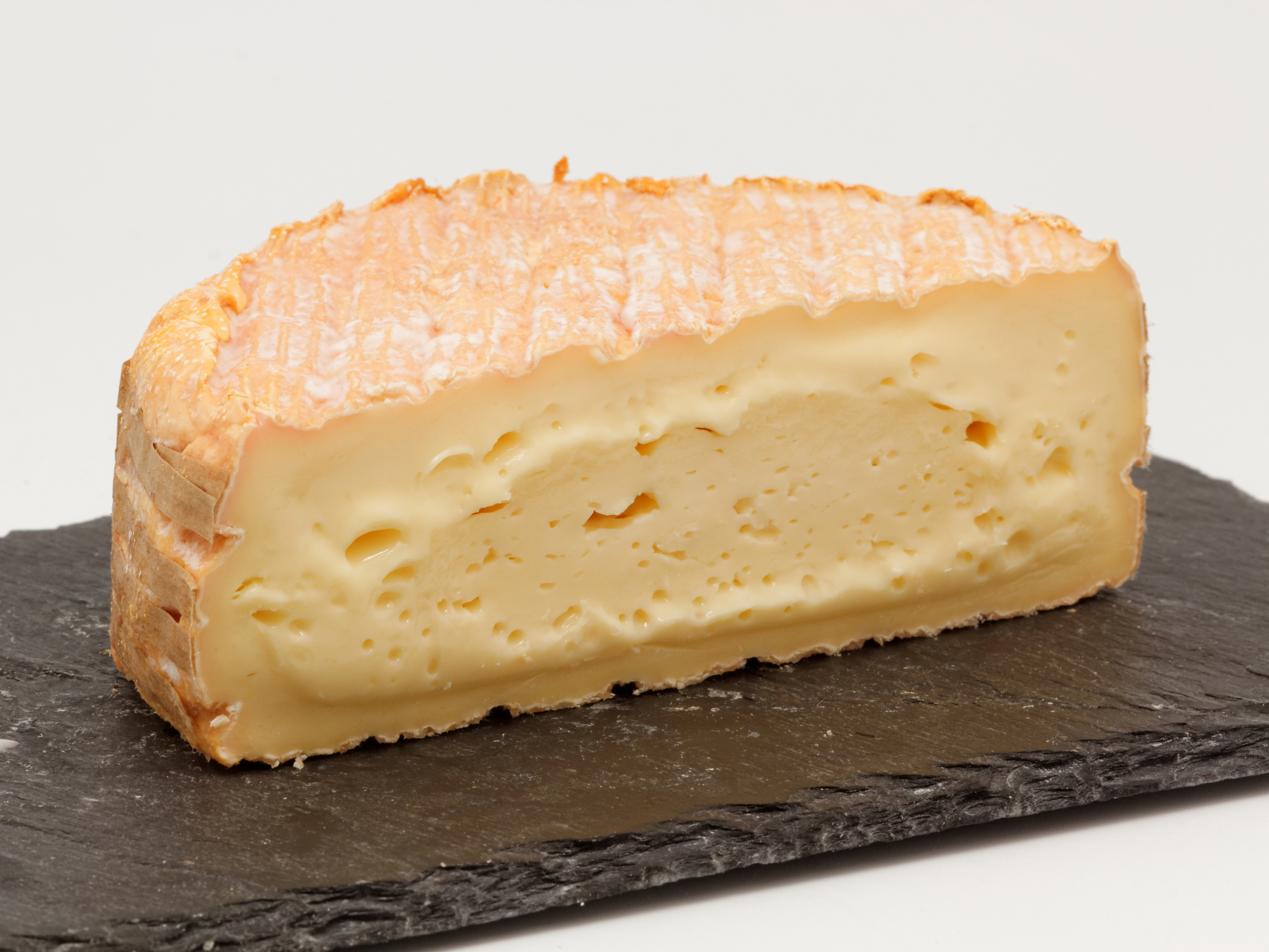 Livarot (cow's milk cheese)